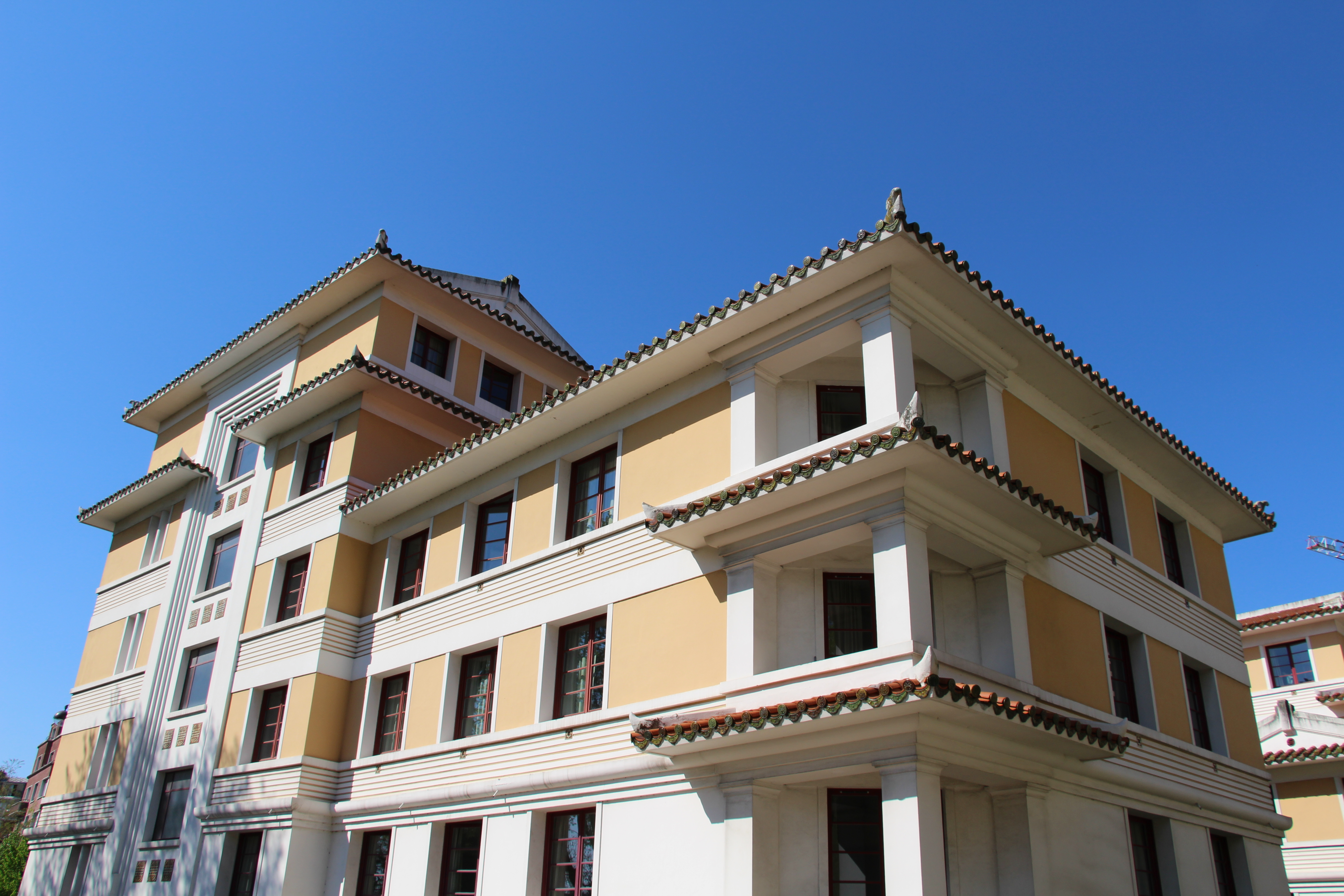 (Parc de Montsouris) Boulevard Jourdan House of Indochina was created at the initiative of a committee composed of a majority of French manufacturers settled in Southeast Asia. Arch. Pierre Martin and Maurice Vieu 1930. The building was renamed the House of South-East Asian students in January 1972. In 1998, the roofs and façades have been restored. Then in 2007, it was the turn of the interior spaces.